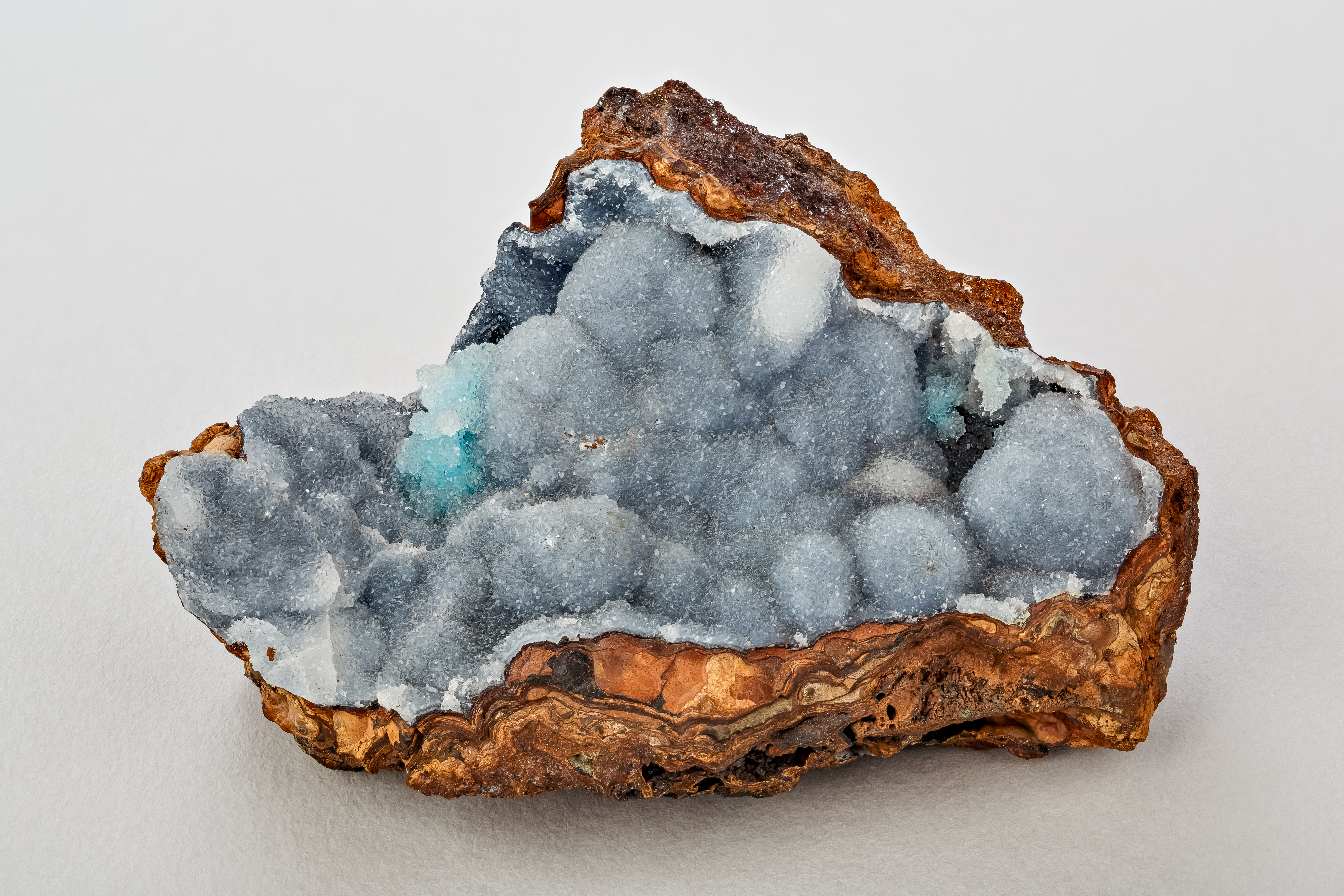 A geode with Prehnite-Laumontite crystals Note: The provenance and correct determination of this mineral is disputed. According to User:Archaeodontosaurus it is an encrustation of quartz crystals on a base of limonite with no prehnite or laumontite present. Focus stacking of 26 pictures.